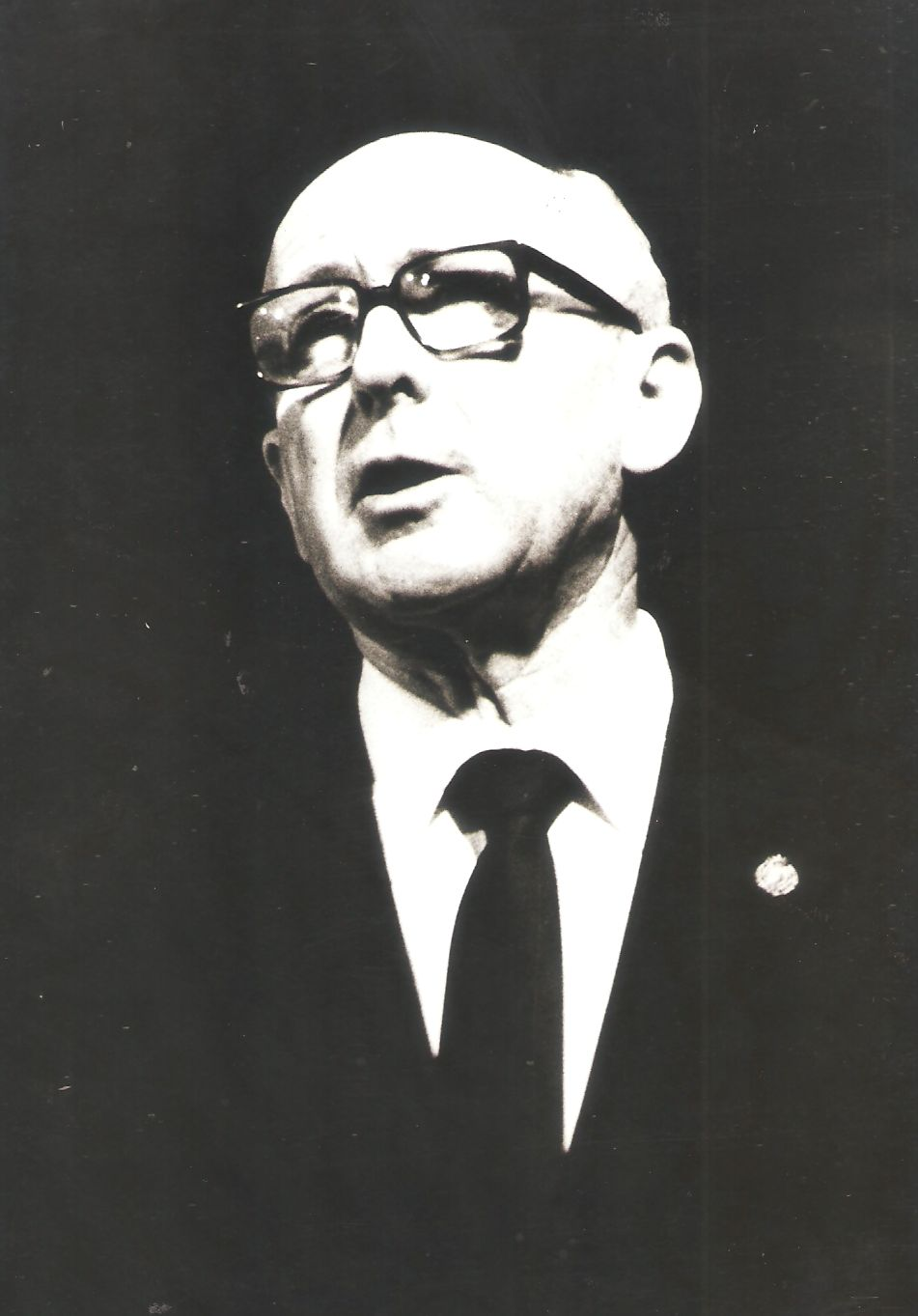 Exposiciones del mundo en Sinaloa.